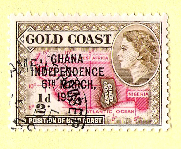 Half-penny postage stamps of Gold Coast overprinted for the Indpendence as Ghana on 6 March 1957